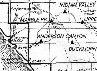 USFS Los Padres National Forest, Monterey District Map, 1953